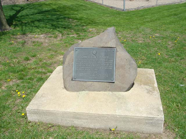 John Dixon's Ferry historical marker, Dixon, Illinois